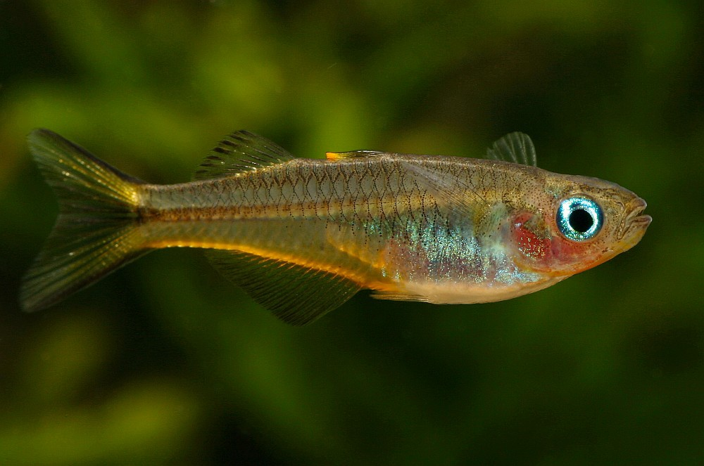 Forktail Blue-eye (Pseudomugil furcatus) - female - in aquarium.